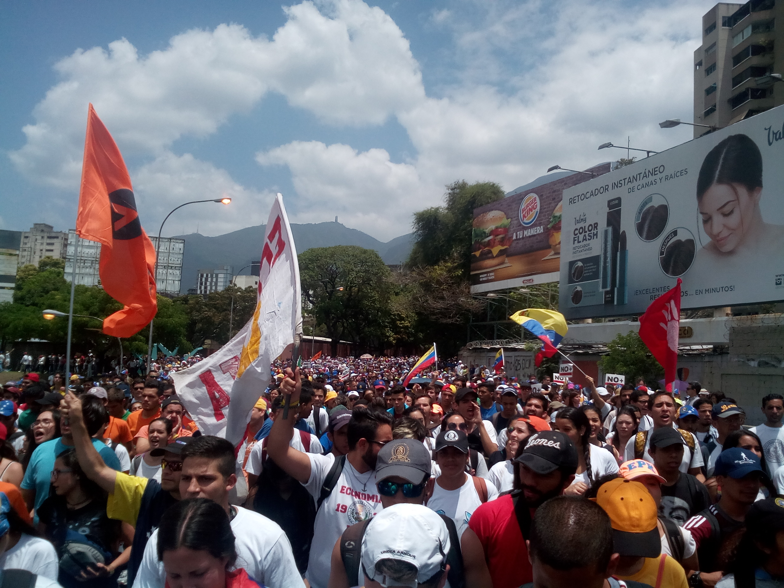 Protest in Venezuela, 6th April, 2017